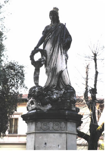 Tito Sarrocchi, L’Italia turrita, civil monument in honour of the Independence of Italy, 1870 ca., Siena.